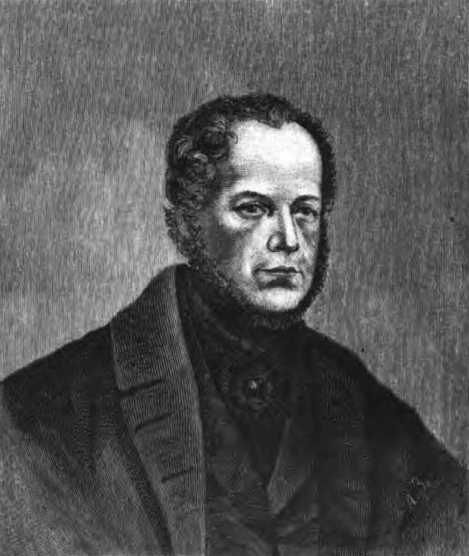 Lev Sergeyevich Pushkin (1805-1852), brother of Aleksandr Pushkin